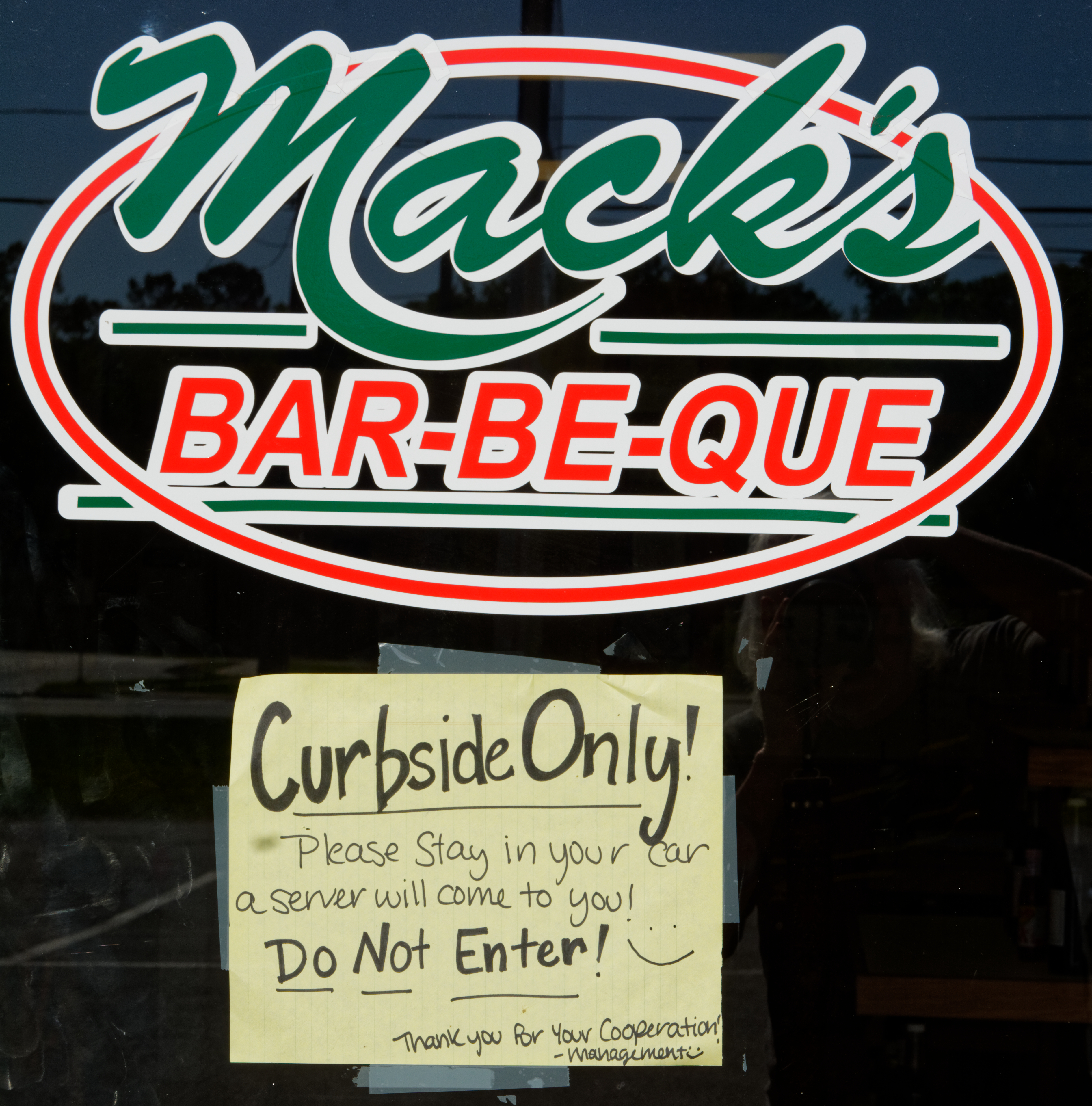 Covid-19 sign at a restaurant in Sterling, Georgia, in Glynn County, Georgia, US. May 11, 2020